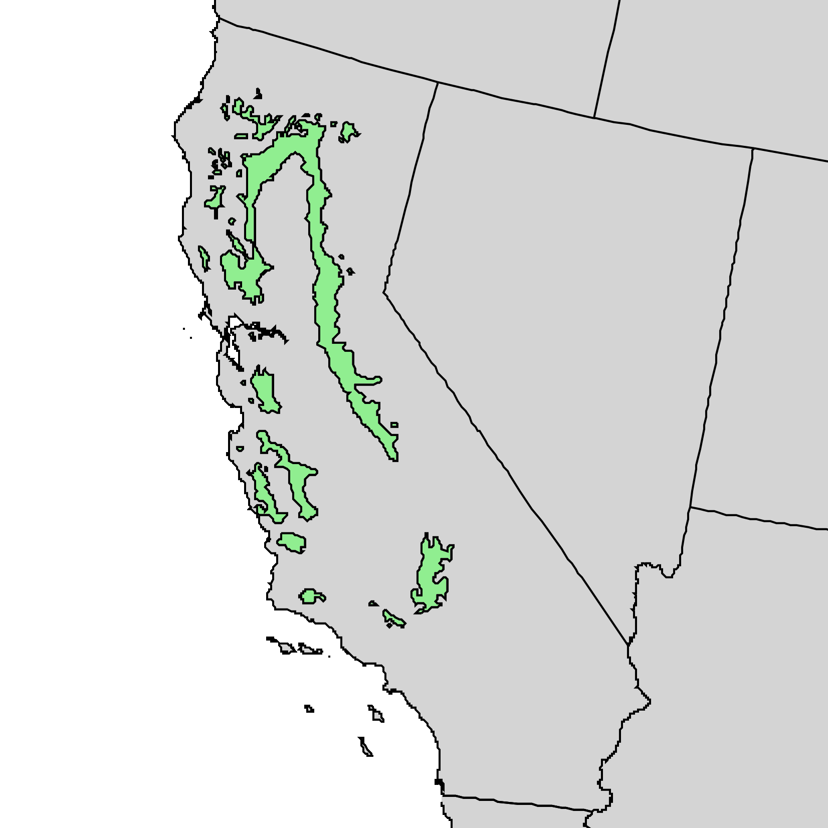 Natural distribution map of Pinus sabiniana (Gray Pine), endemic to California